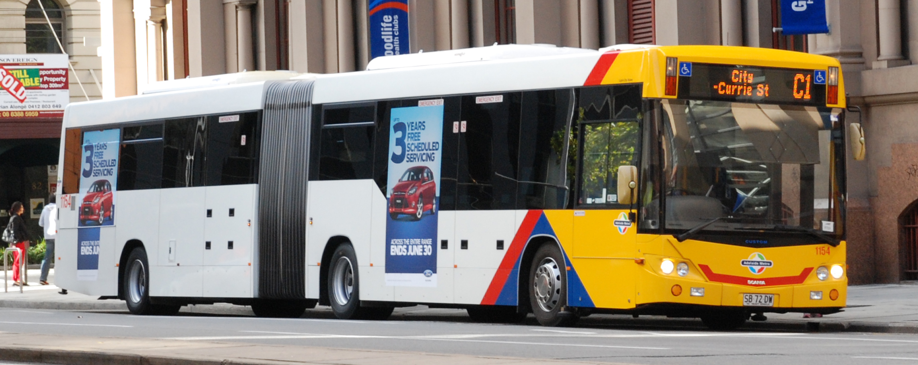 Light-City Buses Custom Coaches 'CB60 Evo II' bodied Scania K320UA (Fleet no. 1154) of route C1 (to City) was dropping off on Currie Street.